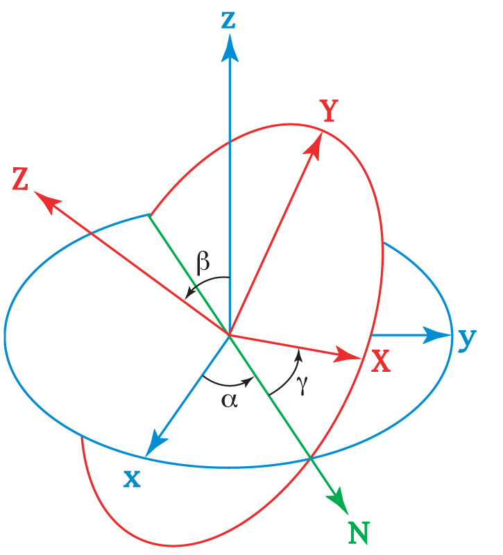 Euler angles - The xyz (fixed) system is shown in blue, the XYZ (rotated) system is shown in red. The line of nodes, labelled N, is shown in green.